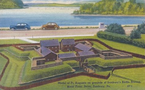 Model of Fort Augusta, Sunbury, Pennsylvania Other information No. This work is in the public domain because it was published in the United States between 1923 and 1963 and although there may or may not have been a copyright notice, the copyright was not renewed. Unless its author has been dead for the required period, it is copyrighted in the countries or areas that do not apply the rule of the shorter term for US works, such as Canada (50 pma), Mainland China (50 pma, not Hong Kong or Macao), Germany (70 pma), Mexico (100 pma), Switzerland (70 pma), and other countries with individual treaties. See Commons:Hirtle chart for further explanation. Deutsch | English | español | français | italiano | 日本語 | 한국어 | македонски | português | português do Brasil | русский | українська | edit|Template:PD-U